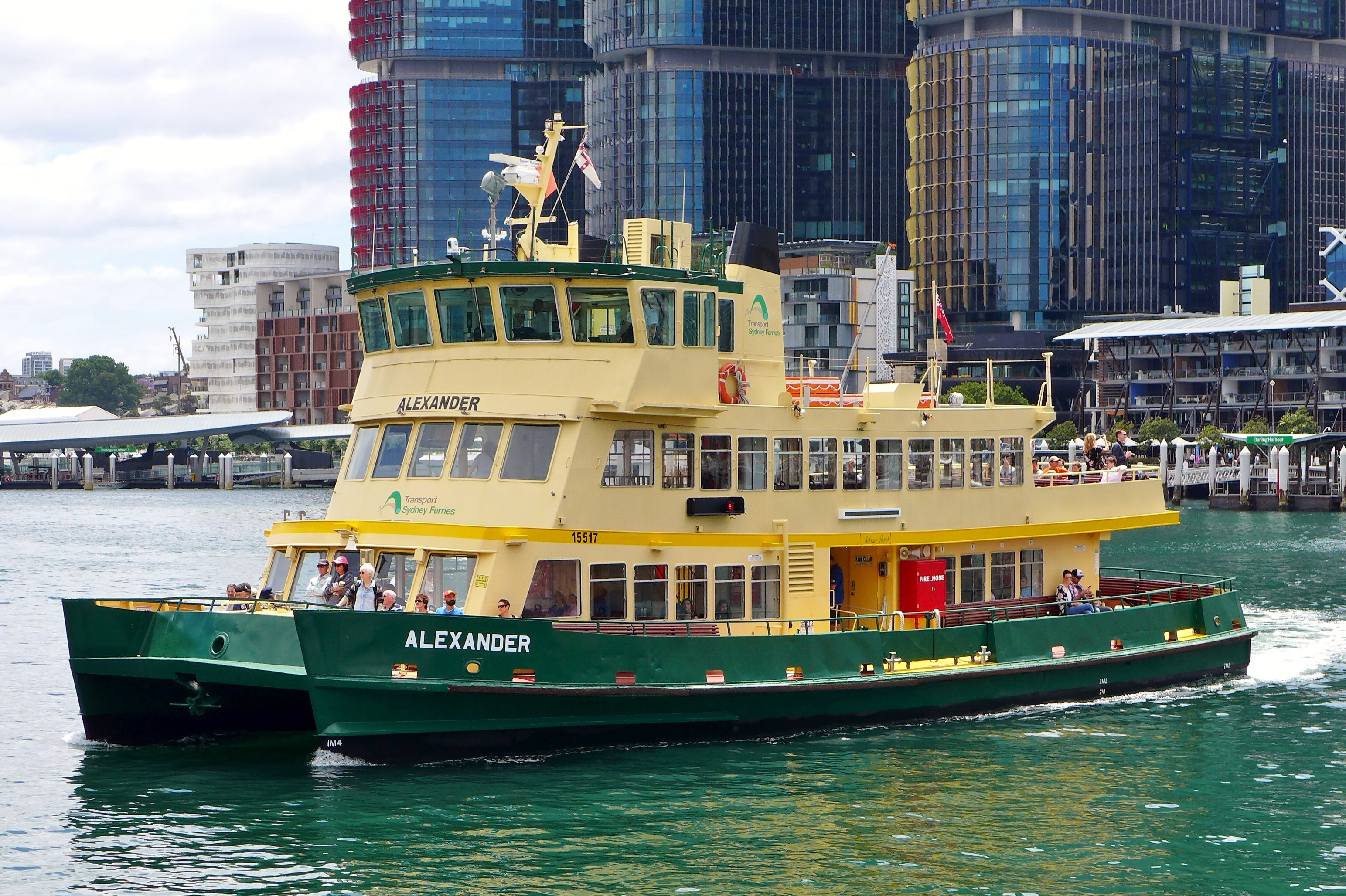 Sydney Ferries' First Fleet-class ferry Alexander approaching Pyrmont Bay ferry wharf with an F4 service from Circular Quay